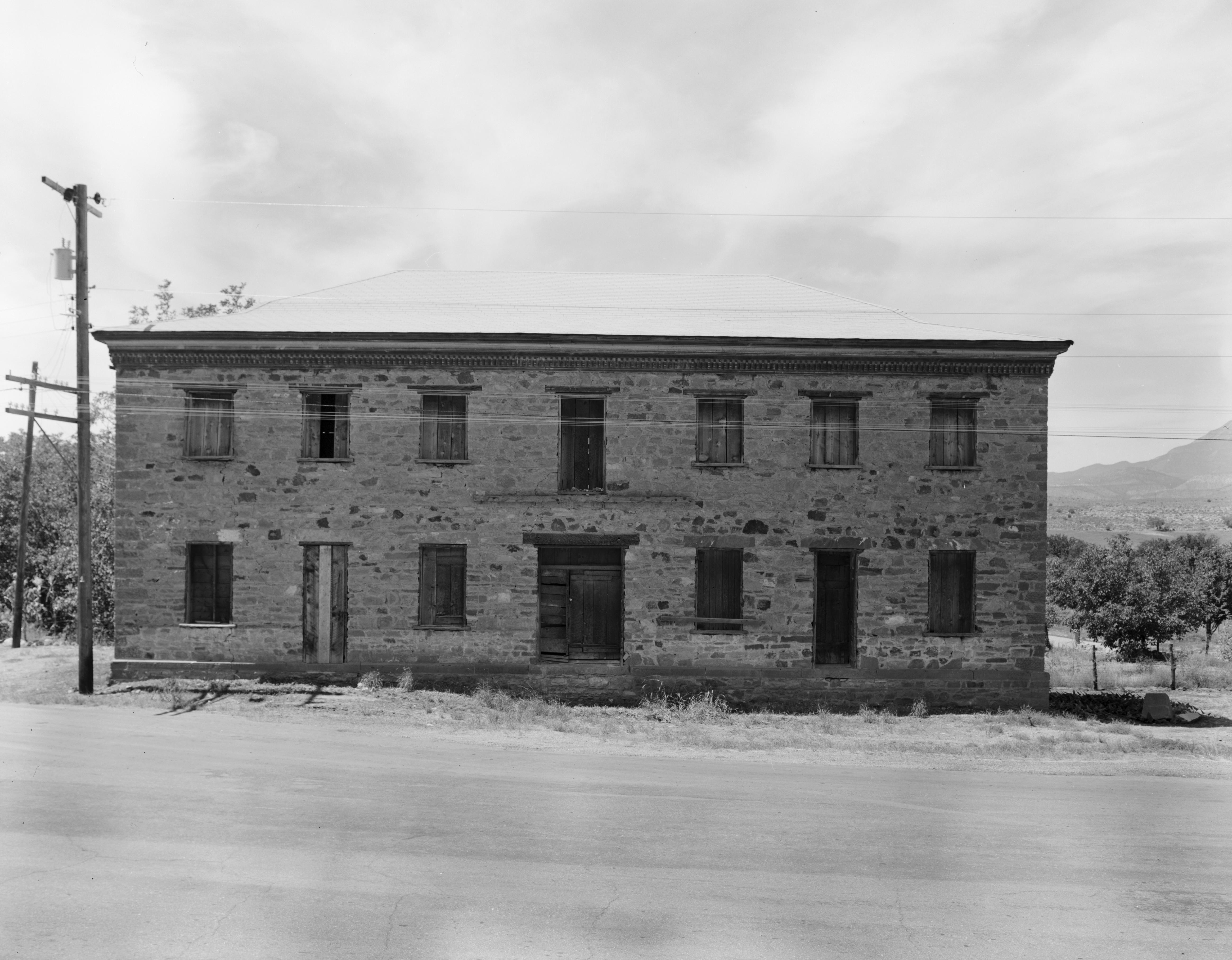 Eastern side of the Naegle Winery, located at the intersection of Main and 5th Streets in Toquerville, Utah, United States. Built in 1868, it is listed on the National Register of Historic Places.